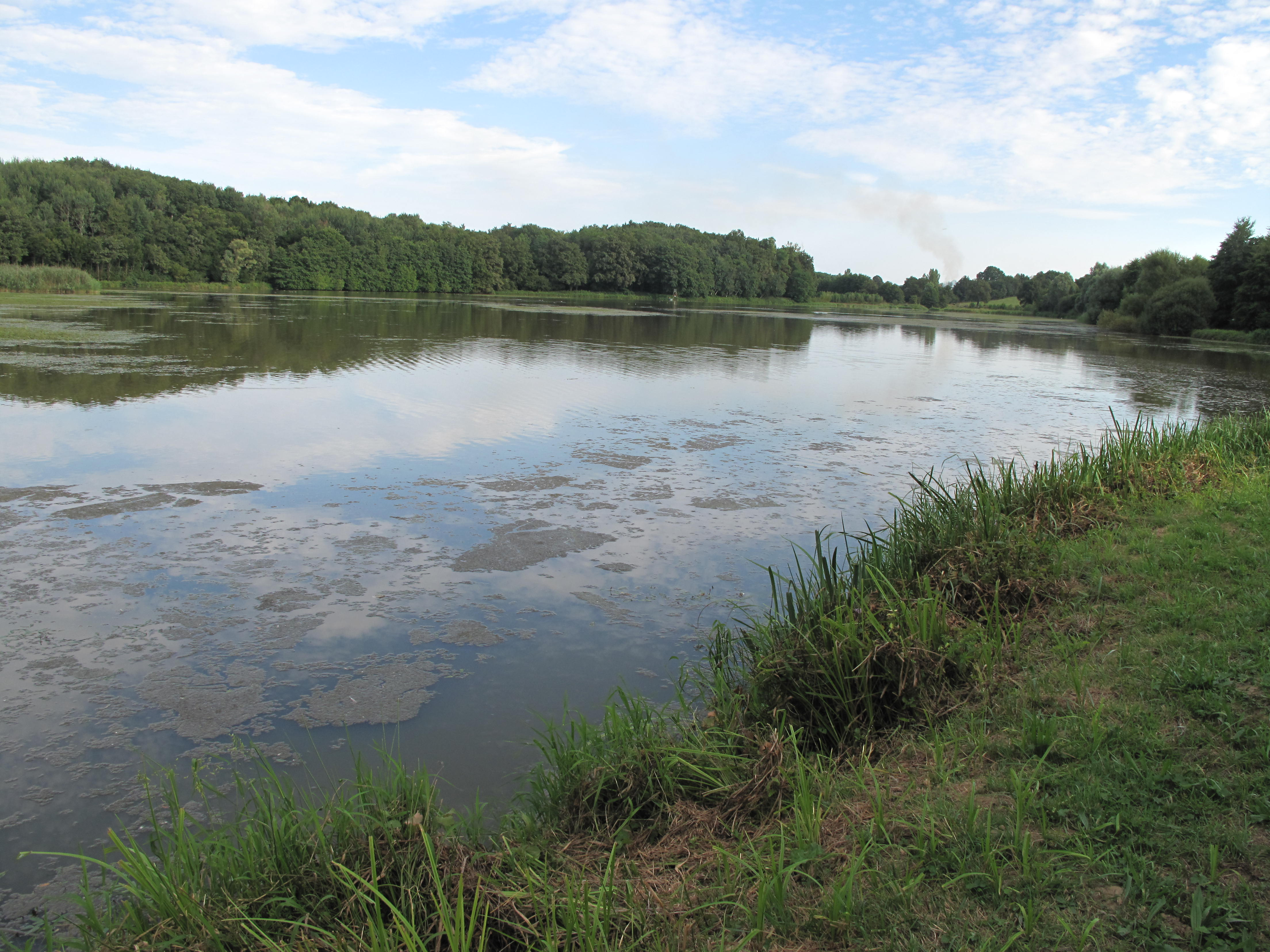 The lake named "Grand étang" (=Large pond) near Arbigny (Ain, France).